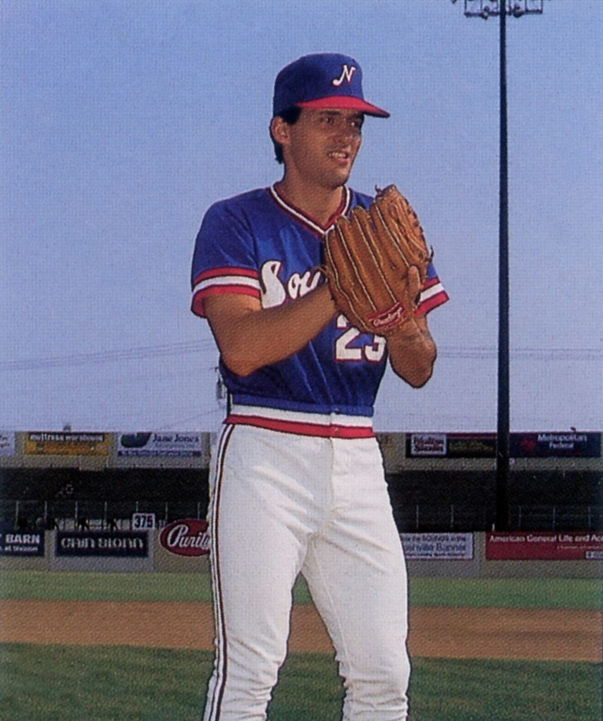 Pitcher Don Heinkel of the 1986 Nashville Sounds Minor League Baseball team of the American Association